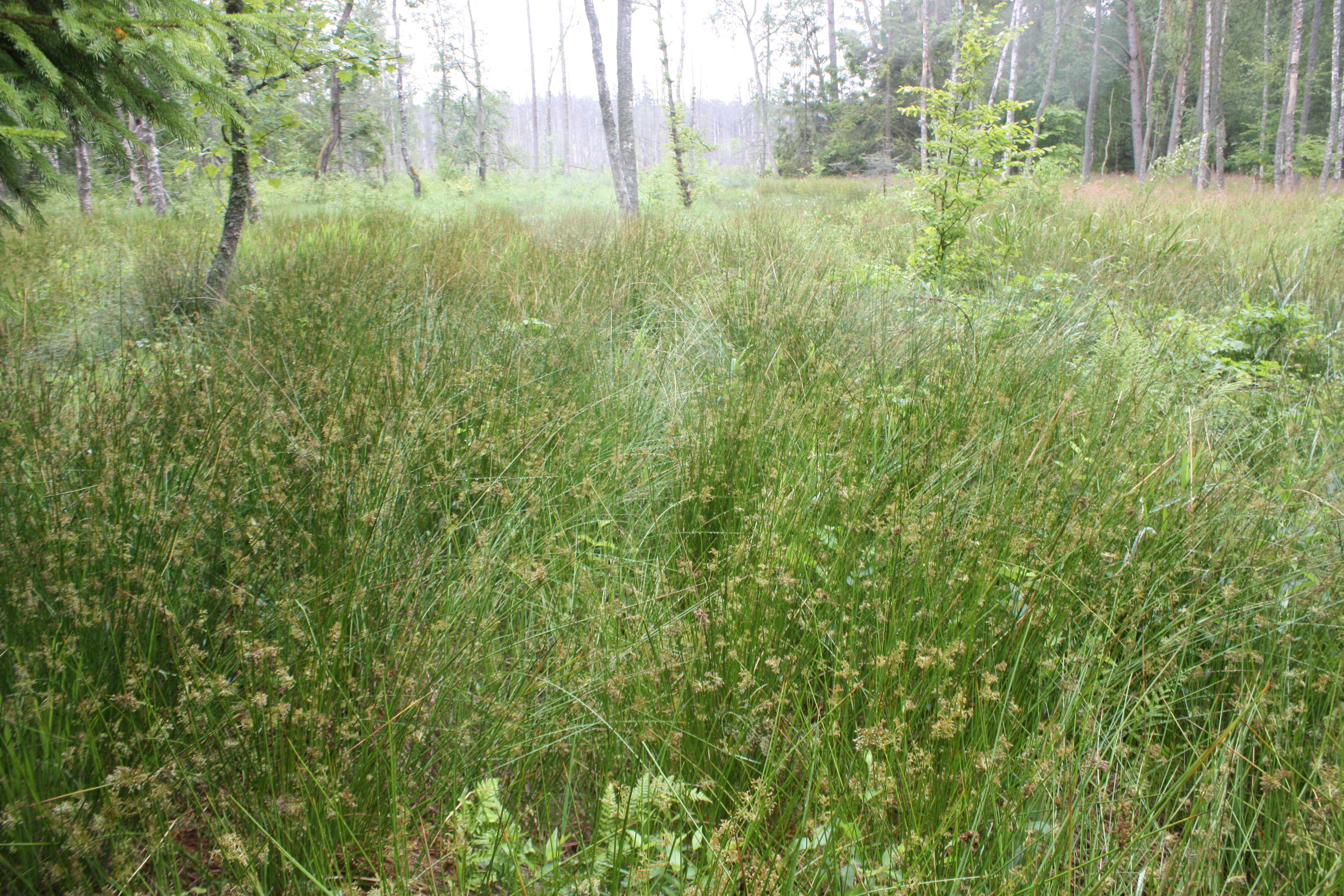 Scirpus sylvaticus,Poland, Gać (gmina Główczyce) near forest road, Słowiński Park Narodowy.